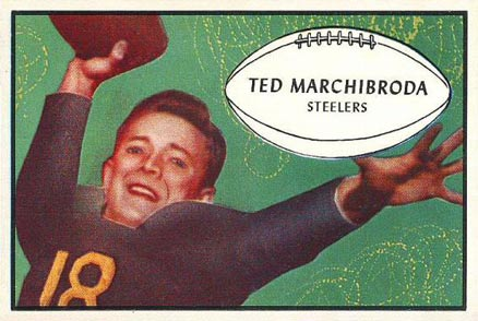 American football player Ted Marchibroda on a 1953 Bowman card.